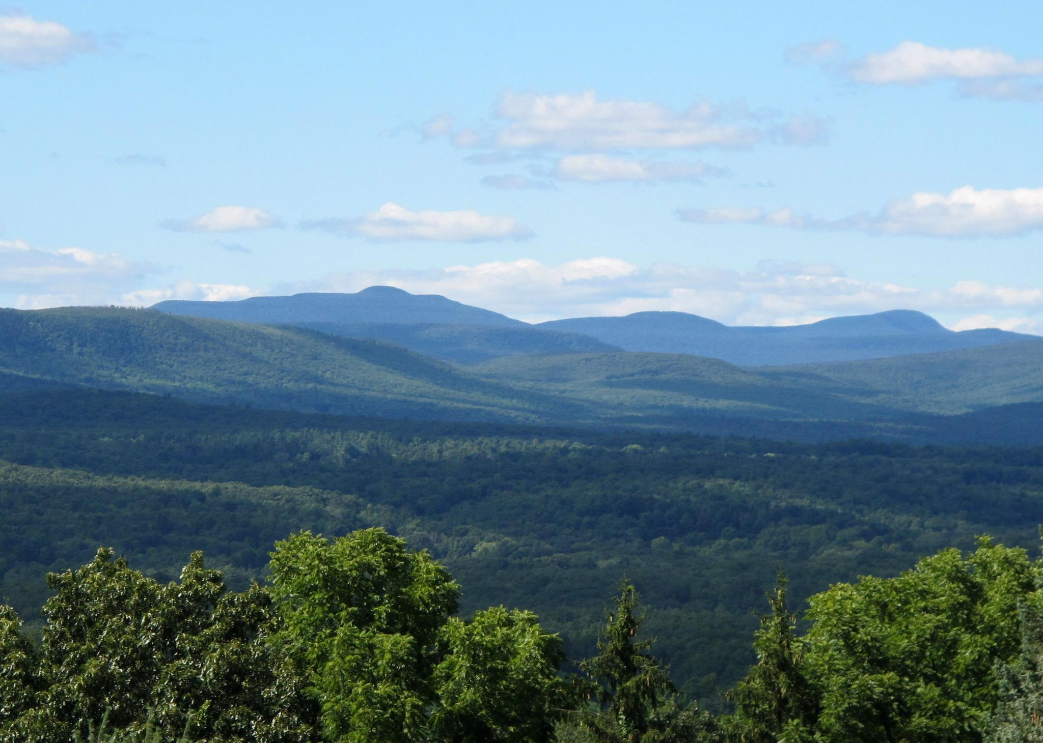 Vista of the Catskill Mountains, as viewed from the Veselka restaurant patio at Soyuzivka Ukrainian Resort in Kerhonkson, New York. (Perspective is from the Northern end of the Shawangunk Ridge) (Photo credit: Adriana Malone)